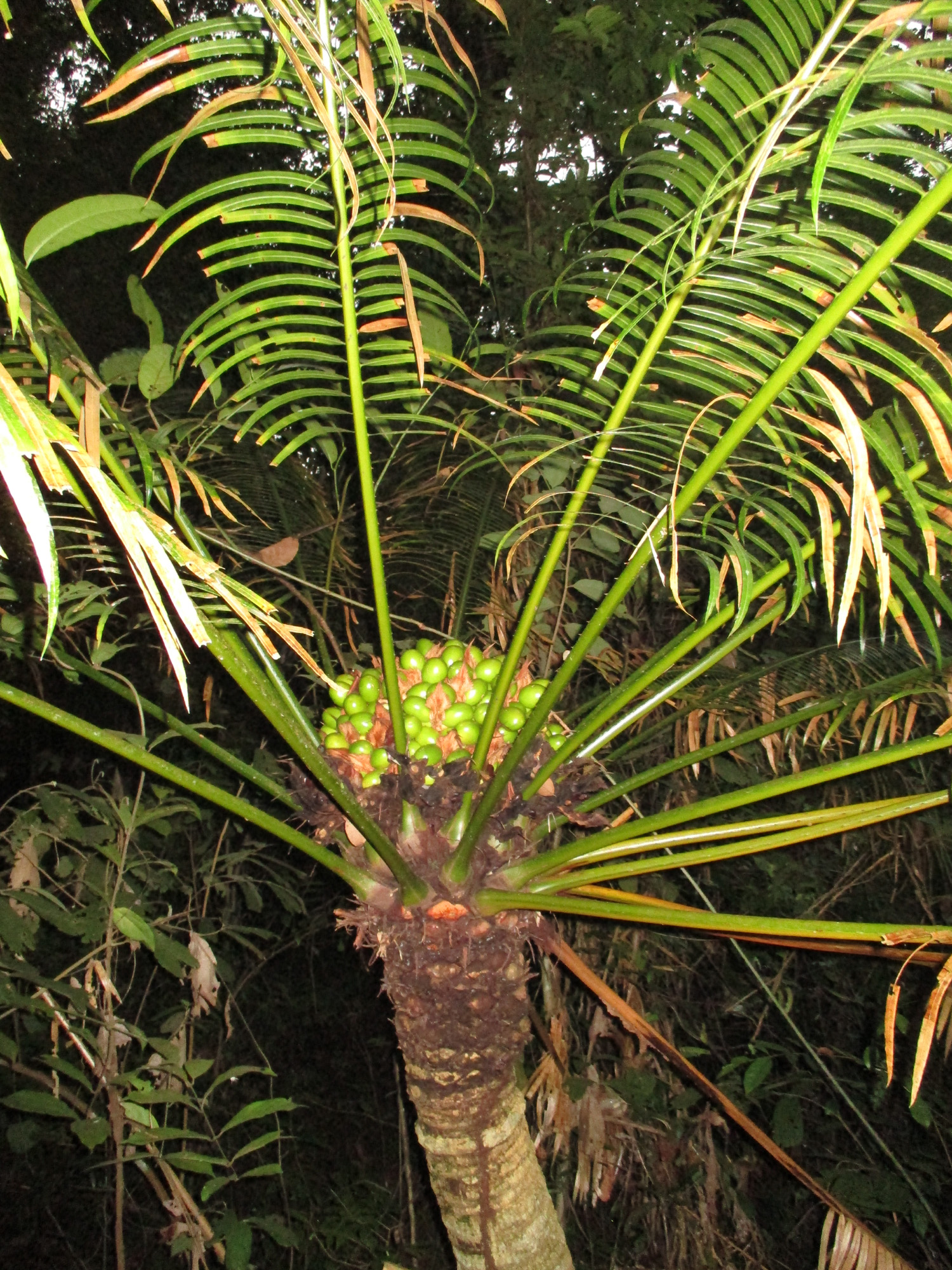 Cycas inermis with megaspores in Cat Tien National Park Oct 2015